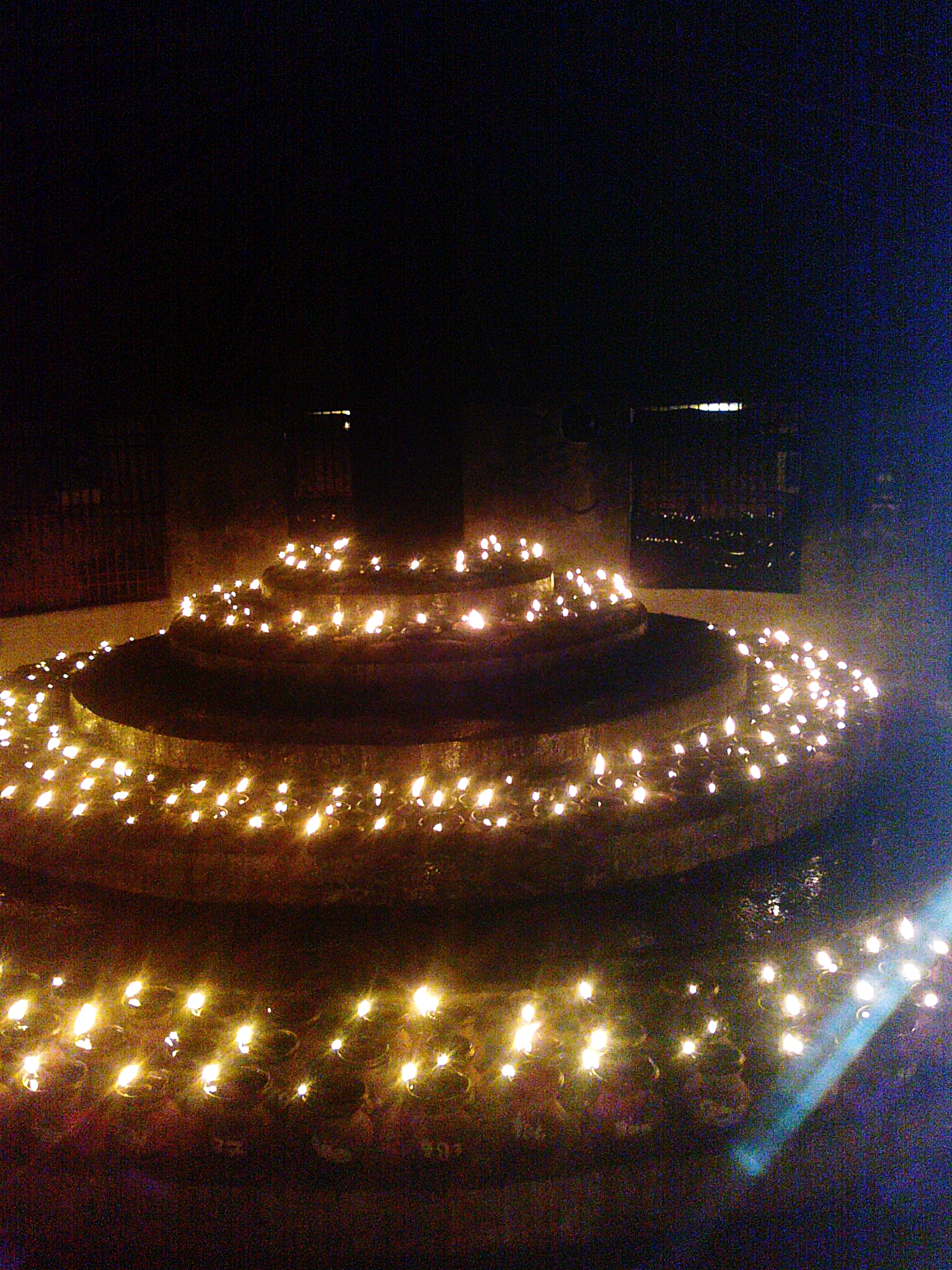 The house is used for display and storage of Jyoti Kalashes or earthen candles filled with oil or ghee as fuel during nine day Hindu festivals of Navratras for The Ashtabhuji temple of the town Adbhar.